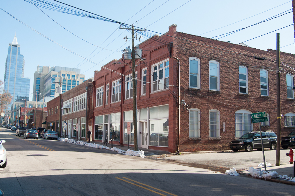 Martin Street in Raleigh with warehouses located in the Warehouse District